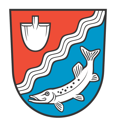 Coat of Arms of Grube, part of Potsdam